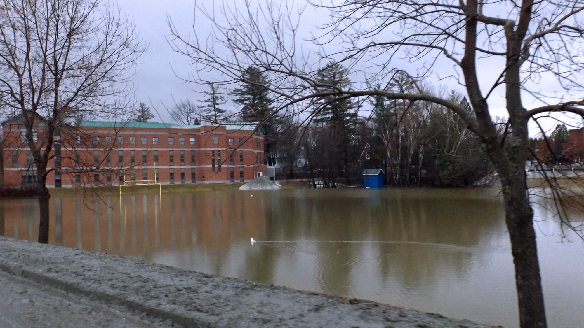 Champlain College Spring 2014